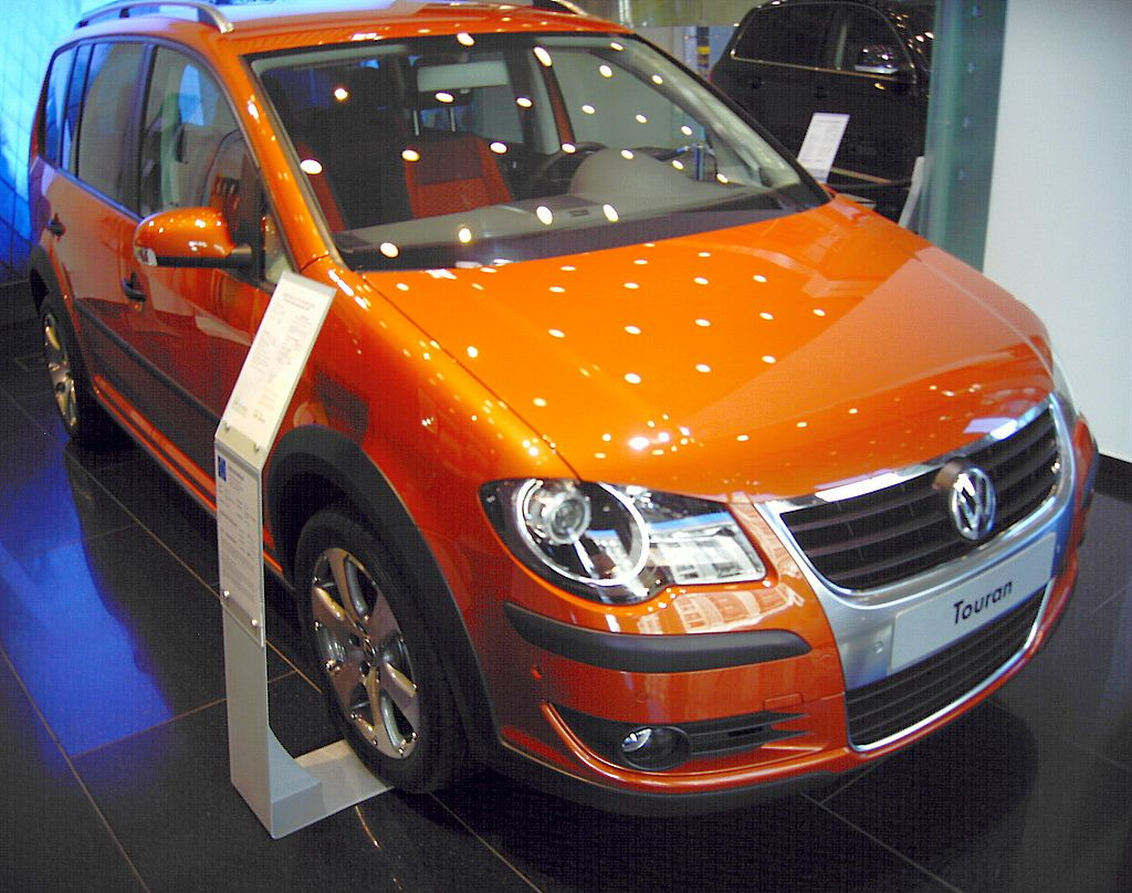 modified Touran named as "Cross Touran" de: modifizierter Touran, der als "Cross Touran" verkauft wird